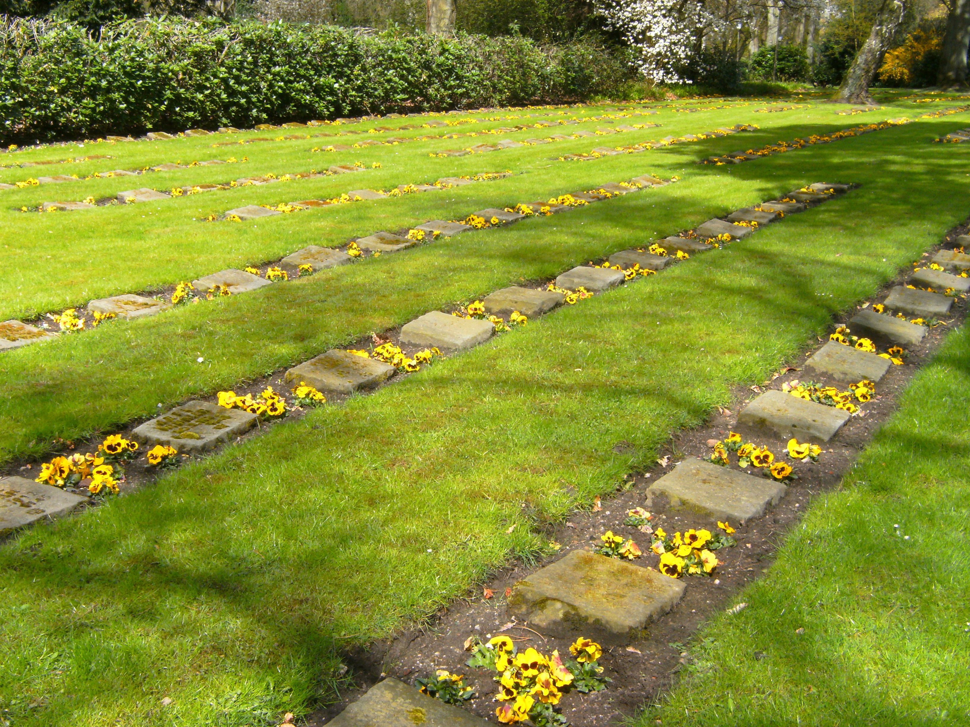 Deutsche Kriegsgräberstätte Hamburg-Ohlsdorf (German military cemetery). Area: Graves from March 1942 on. Gravestones of all victims near the memorial.